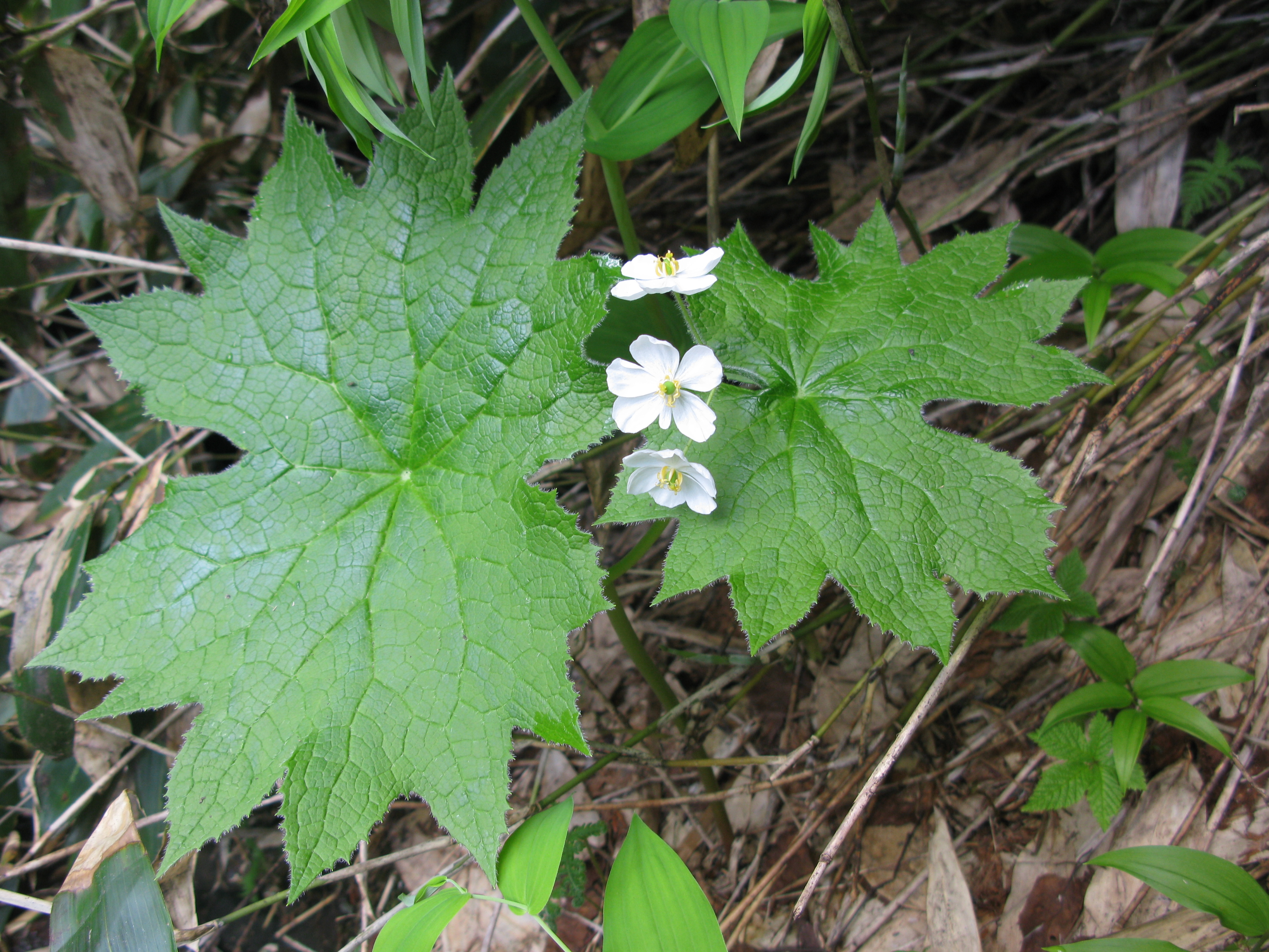 Diphylleia grayi, Mount Hiuchigatake, Fukushima pref., Japan